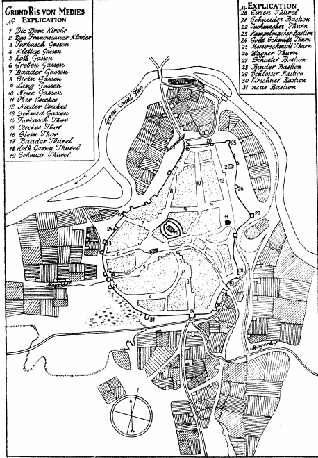 plan of Mediasch/Mediaș/Medgyes from 1736